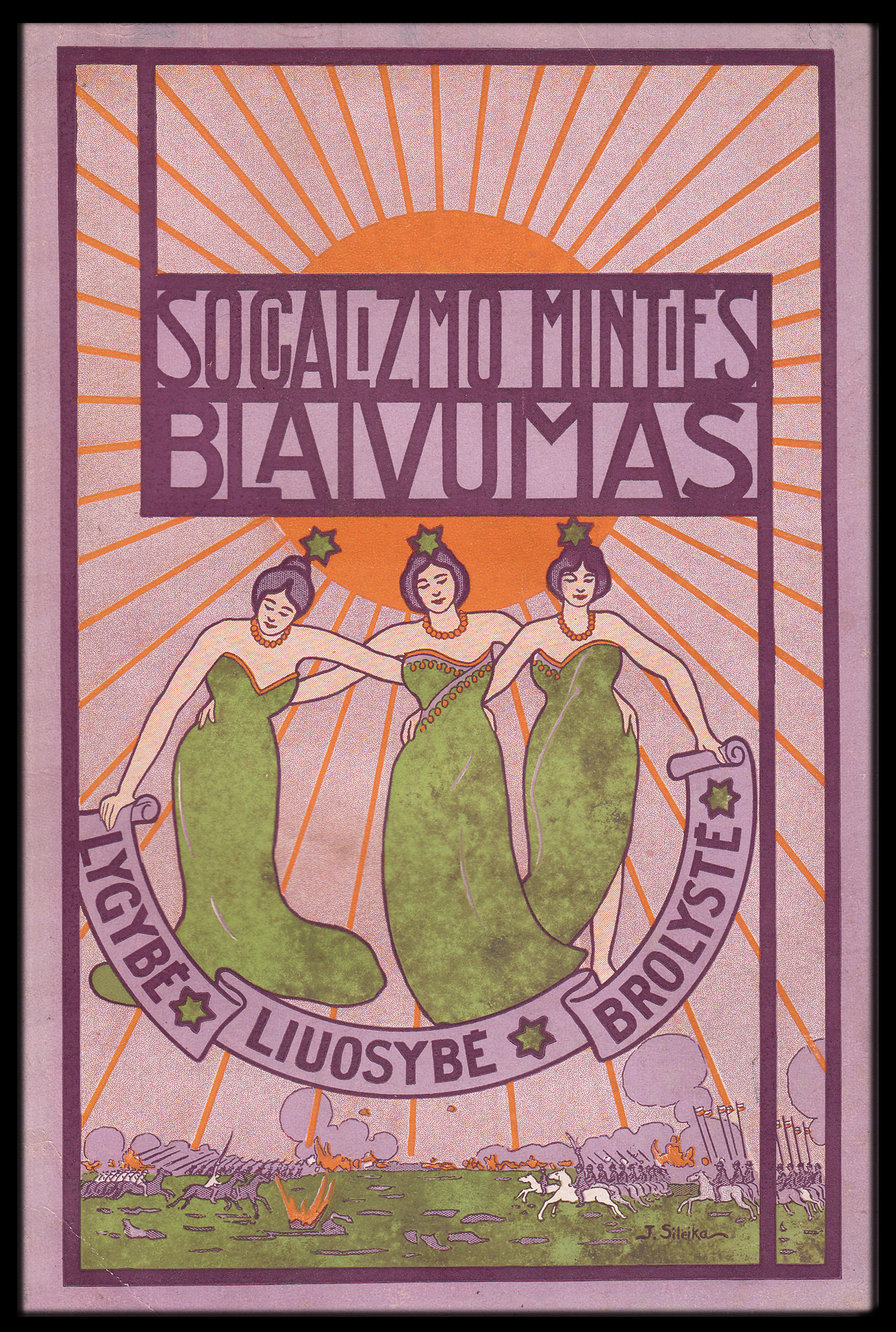 Cover of John Spargo's The Common Sense of Socialism. Translation by the Lithuanian Socialist Federation, 1916. Published in USA prior to 1923, copyright clear. Original in Tim Davenport collection Scanned by me for Wikipedia, no copyright claimed